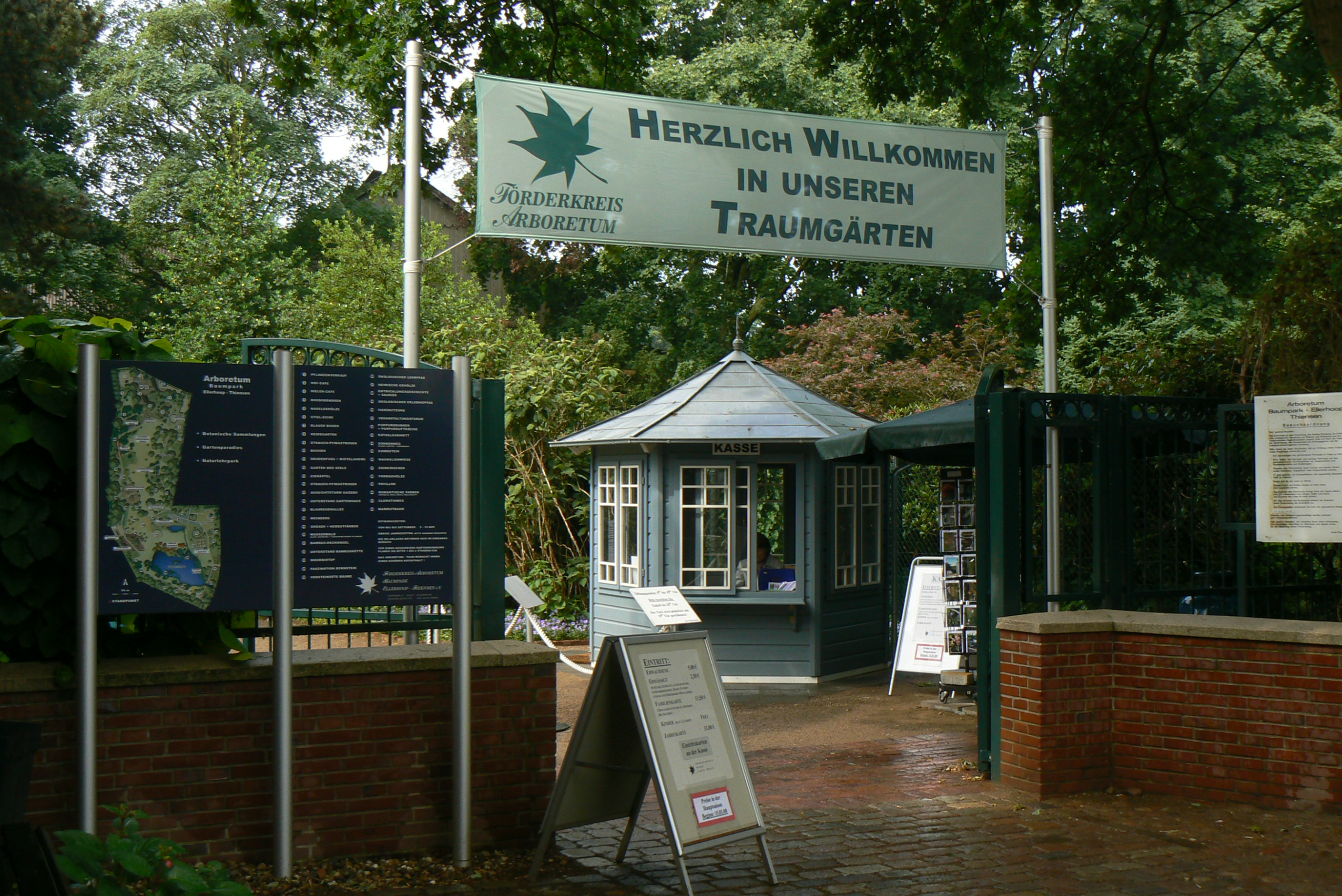 Entrance into the Arboretum Ellerhoop, Schleswig-Holstein, Germany